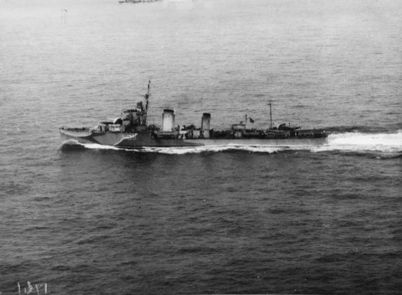 British destroyer HMS AMAZON underway at sea. Pennant No D39